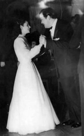 Delia Garcés and Orson WellesFrom It's All True: Orson Welles's Pan-American Odyssey (2007) by Catherine L. Benamou; caption from a different but probably related photo appearing on page 247:Orson Welles at awards reception for Citizen Kane, in Buenos Aires, Argentina, April 1942. The award was given by the newly formed Argentine Academy of Motion Picture Arts and Sciences. To his left is Argentine actress Mecha Ortiz; to his right are actress Delia Garcés and director Victor Saslavsky. Courtesy Orson Welles Manuscripts Collection, Lilly Library, Indiana University.